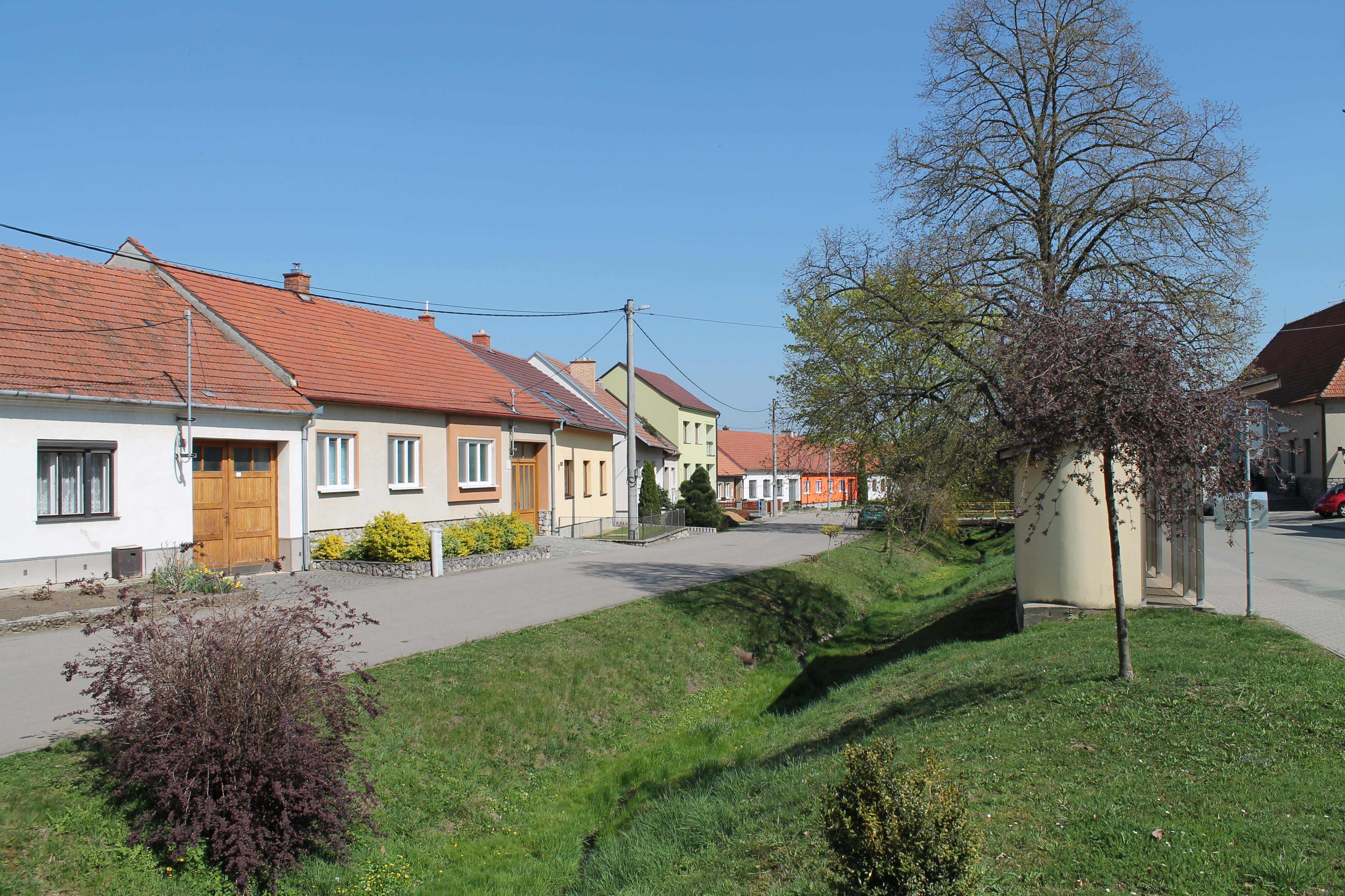 Kovalovice, Brno-Country District, Czech Republic